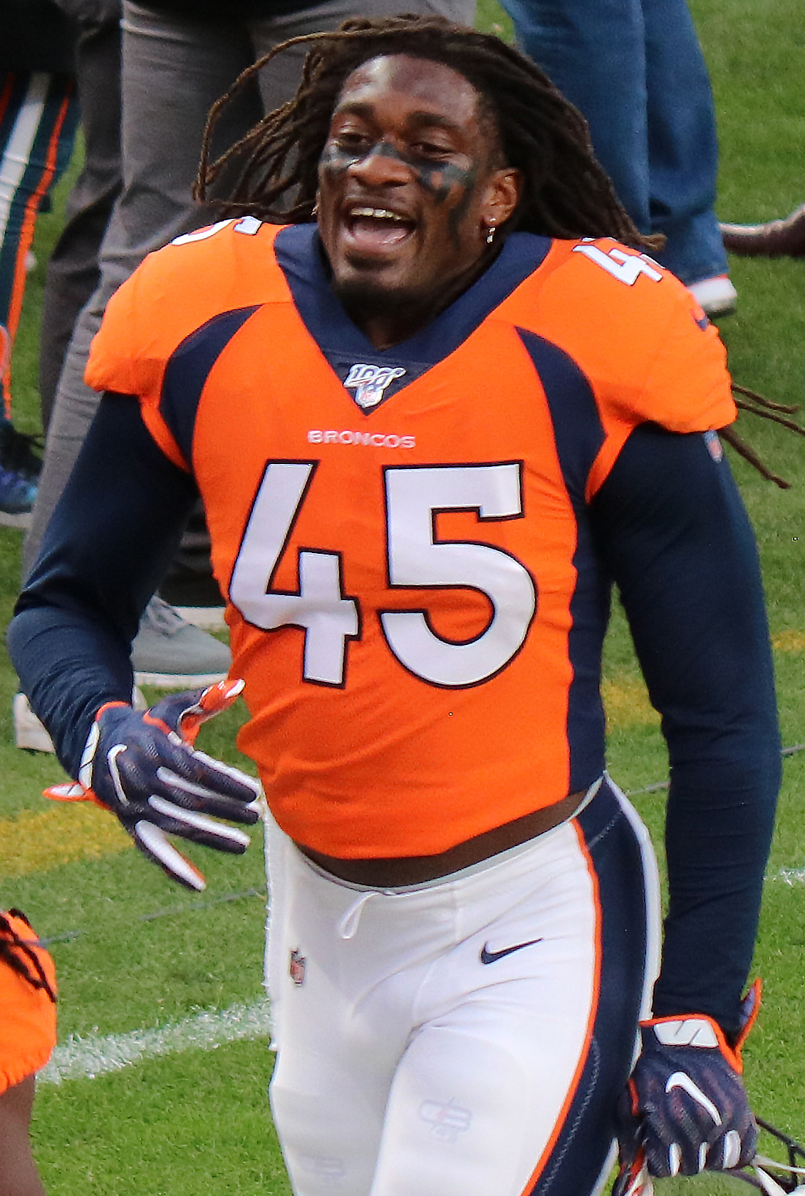 A. J. Johnson, a National Football League player.